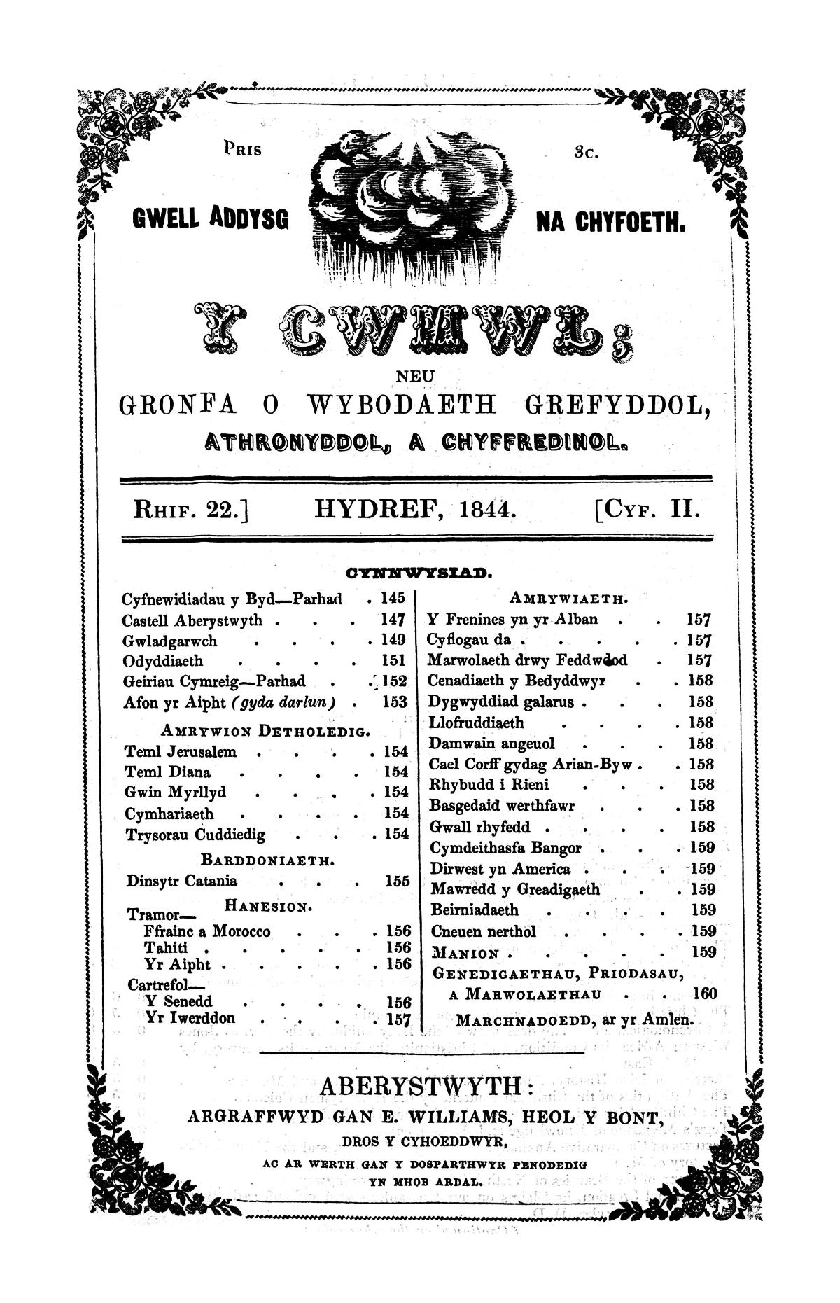 A monthly non-denominational Welsh language general periodical that published articles on subjects such as religion, education, philosophy, current affairs and the Welsh language, alongside selections from the press, foreign and domestic news, biographies and poetry. The periodical was edited by the printer, Robert Jones (Adda Fras, 1809-1880).